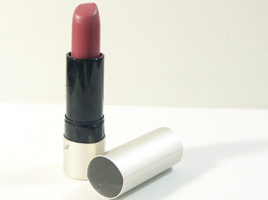 An image of a Lipstick and its cap